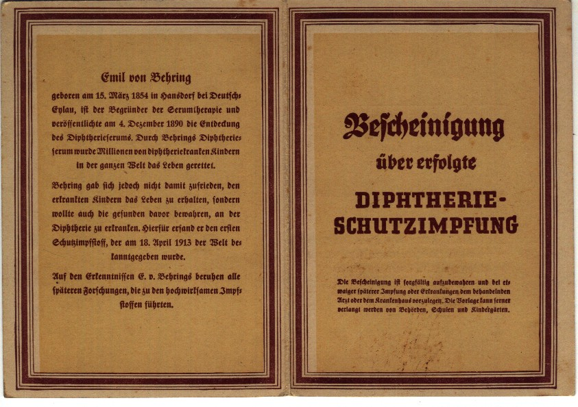 Envelope of german Diphtheria vaccination card of the 1940s